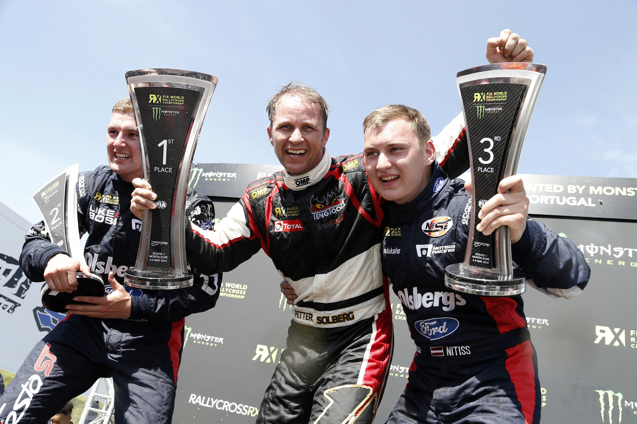 The Supercar podium at Round 1 of the 2014 FIA World Rallycross Championship at Circuito de Montalegre, Portugal. From left to right: Andreas Bakkerud, Petter Solberg and Reinis Nitišs.